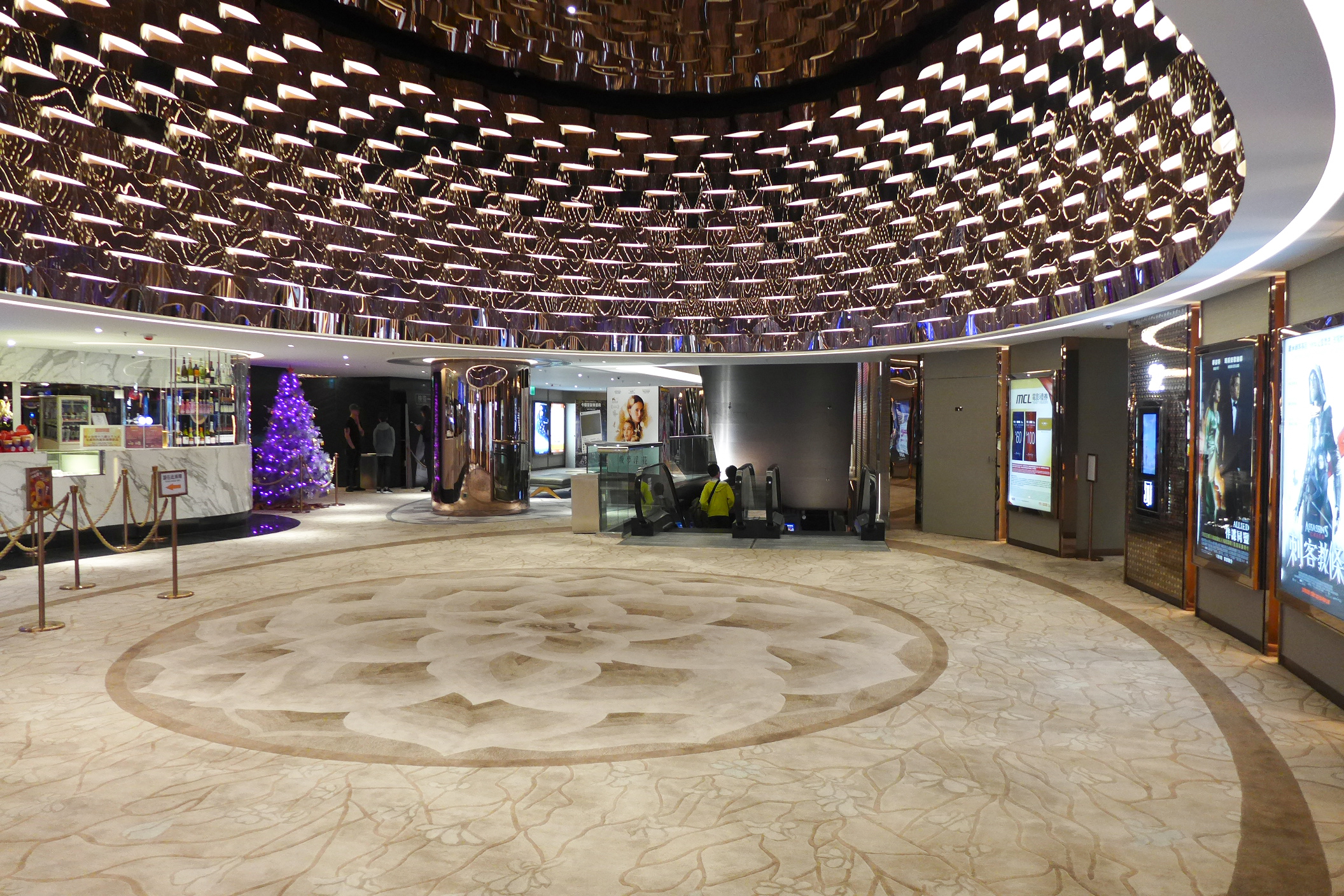 Festival Grand Cinema